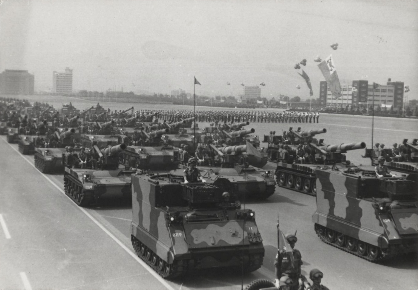 South Korean Army Parade at Armed Forces day in 1973.